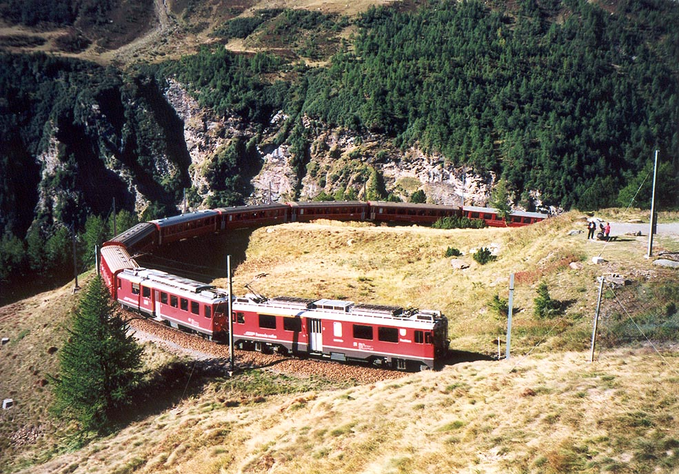 Bernina line is the only line which crosses Alps without summit tunnel, but with inclines to 70 o/oo. Train leaves Alp Grüm near the top point of this line